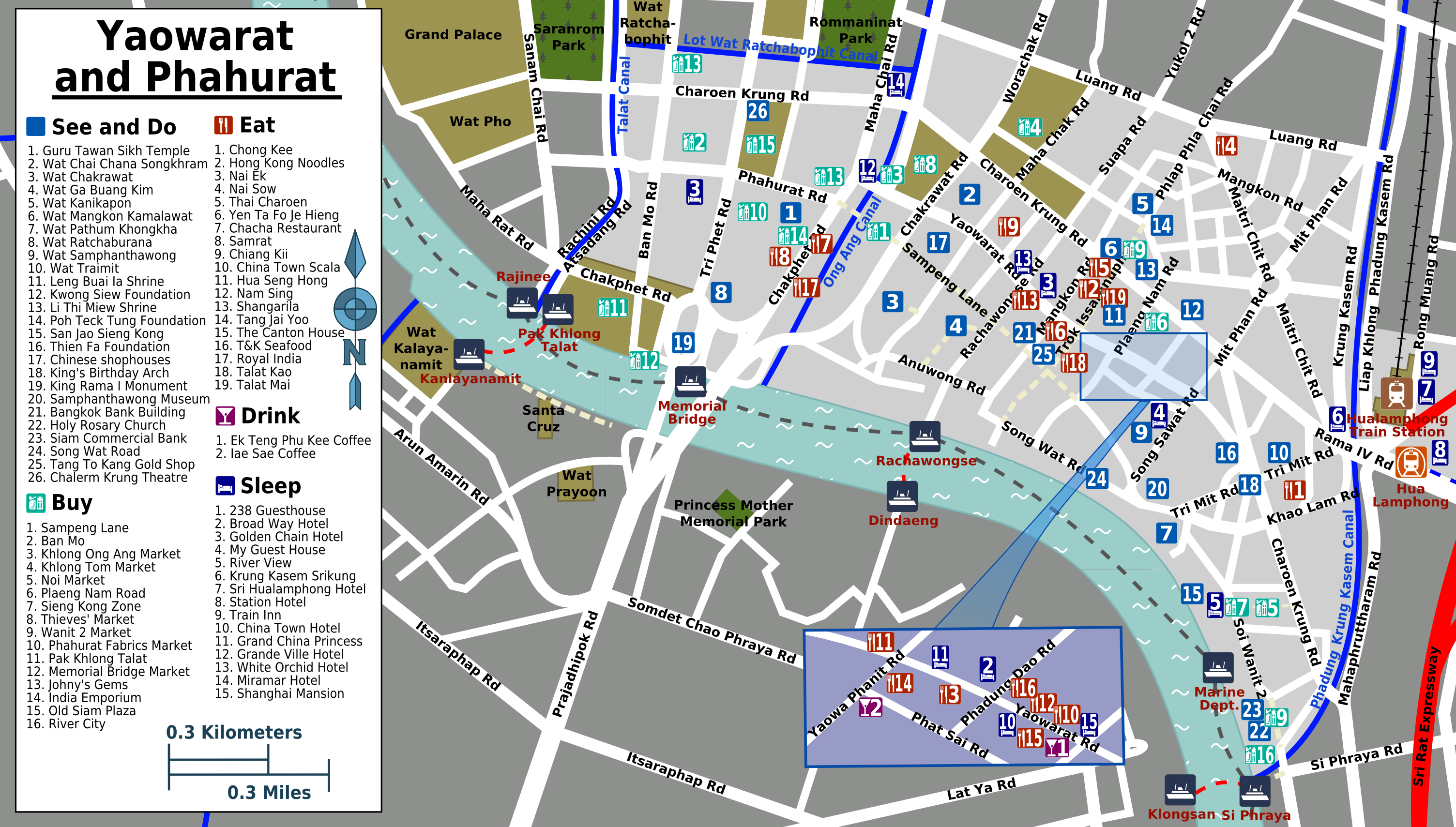 Map of Yaowarat and Phahurat, Bangkok.